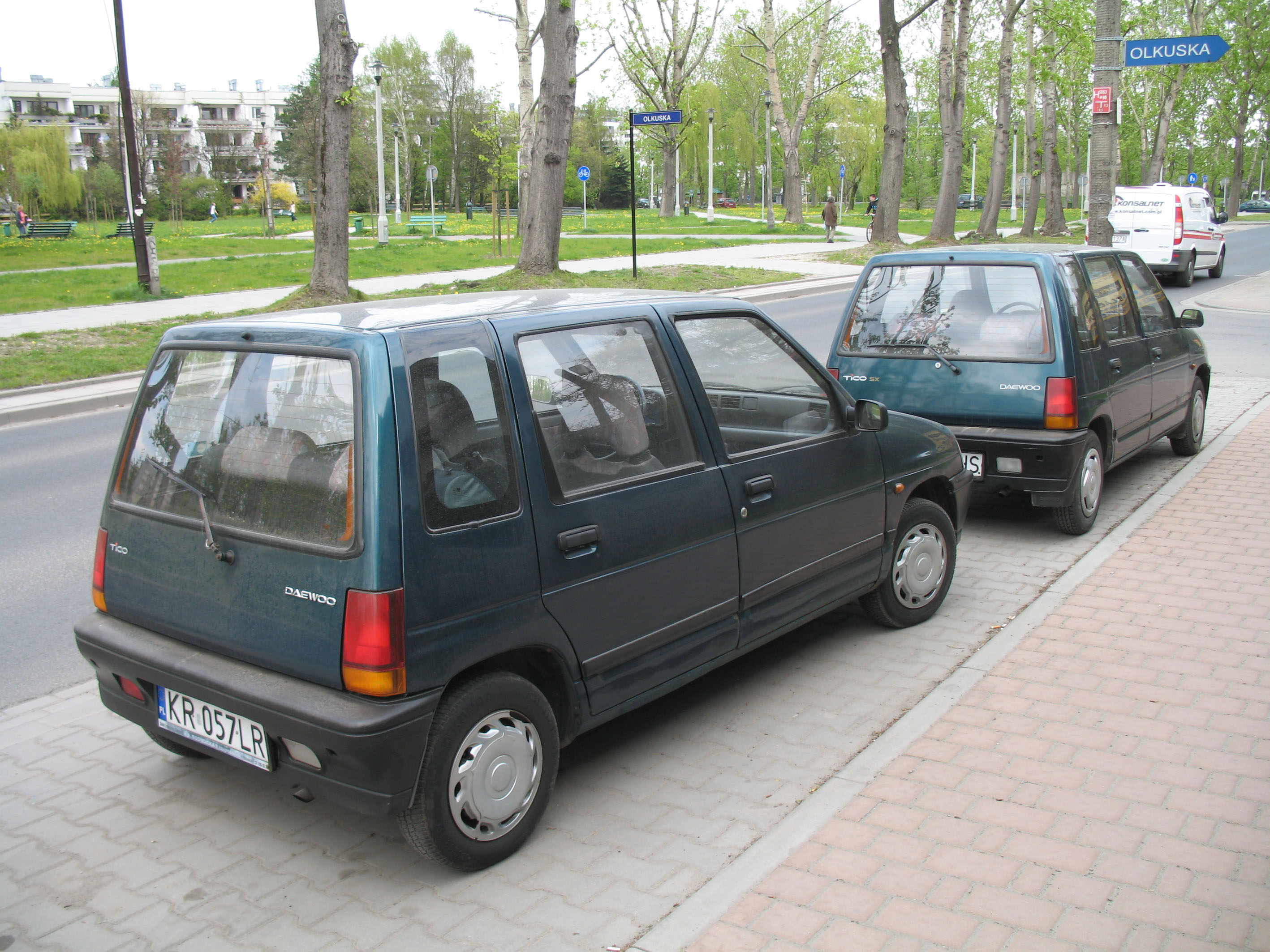 Daewoo Tico and Daewoo Tico SX cars in Kraków, Poland. Automobiles assembled in Warsaw (FSO factory).